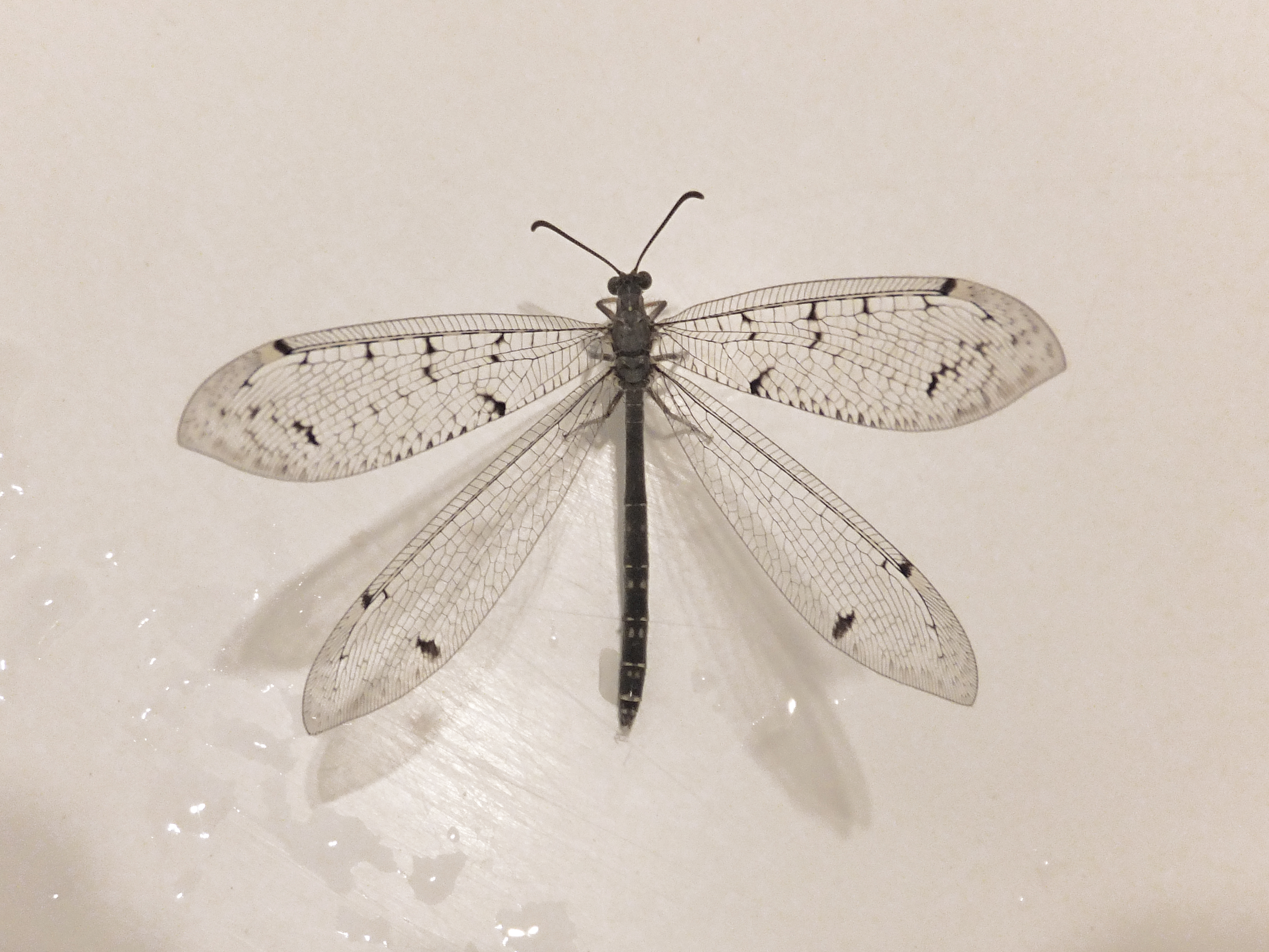 Female of Distoleon tetragrammicus in a sink